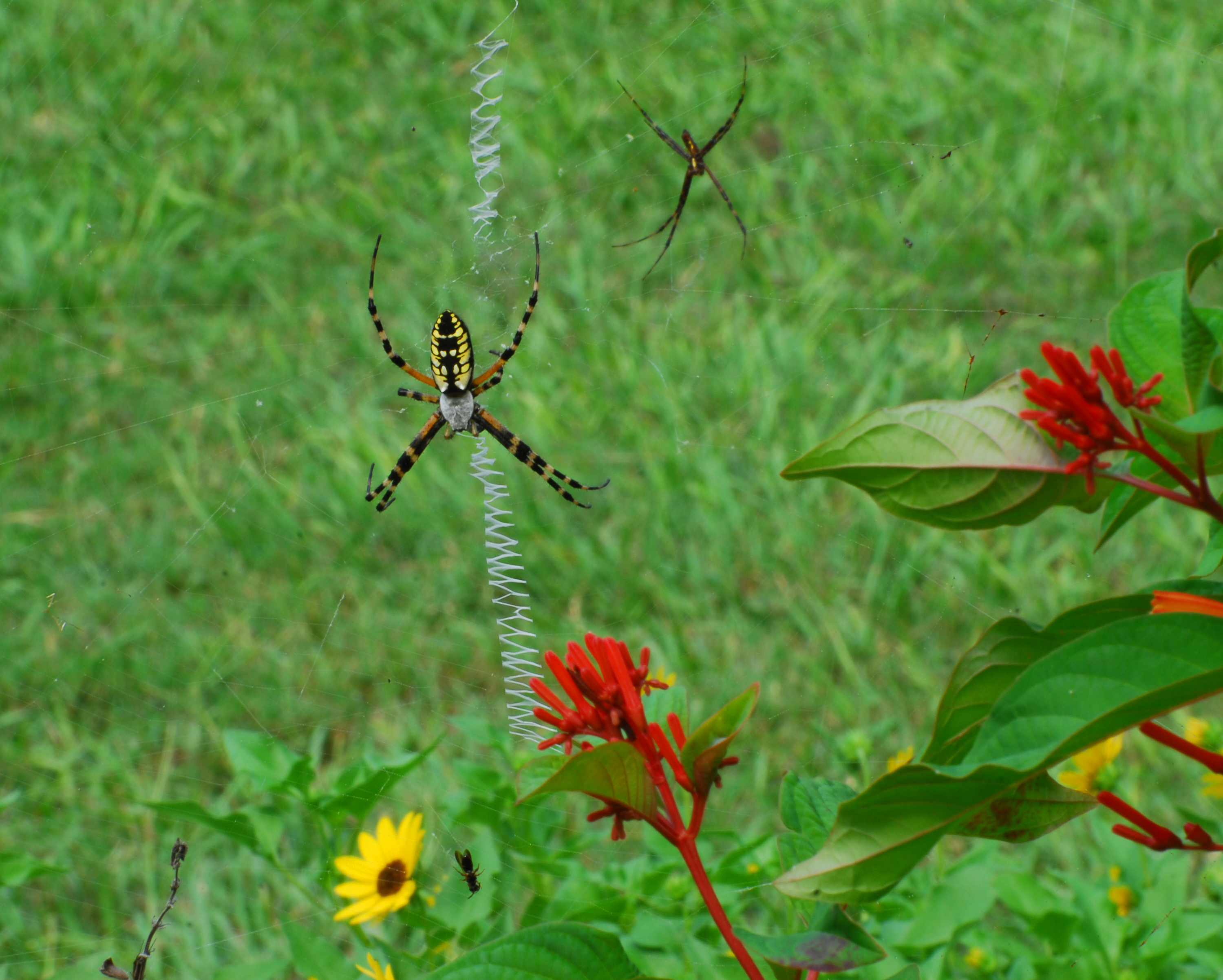 Photo by Matt Edmonds. In Rainbow Springs Park, August, 2007. Argiope aurantia adult female with male nearby. Note unwrapped wasp in the bottom of the web.